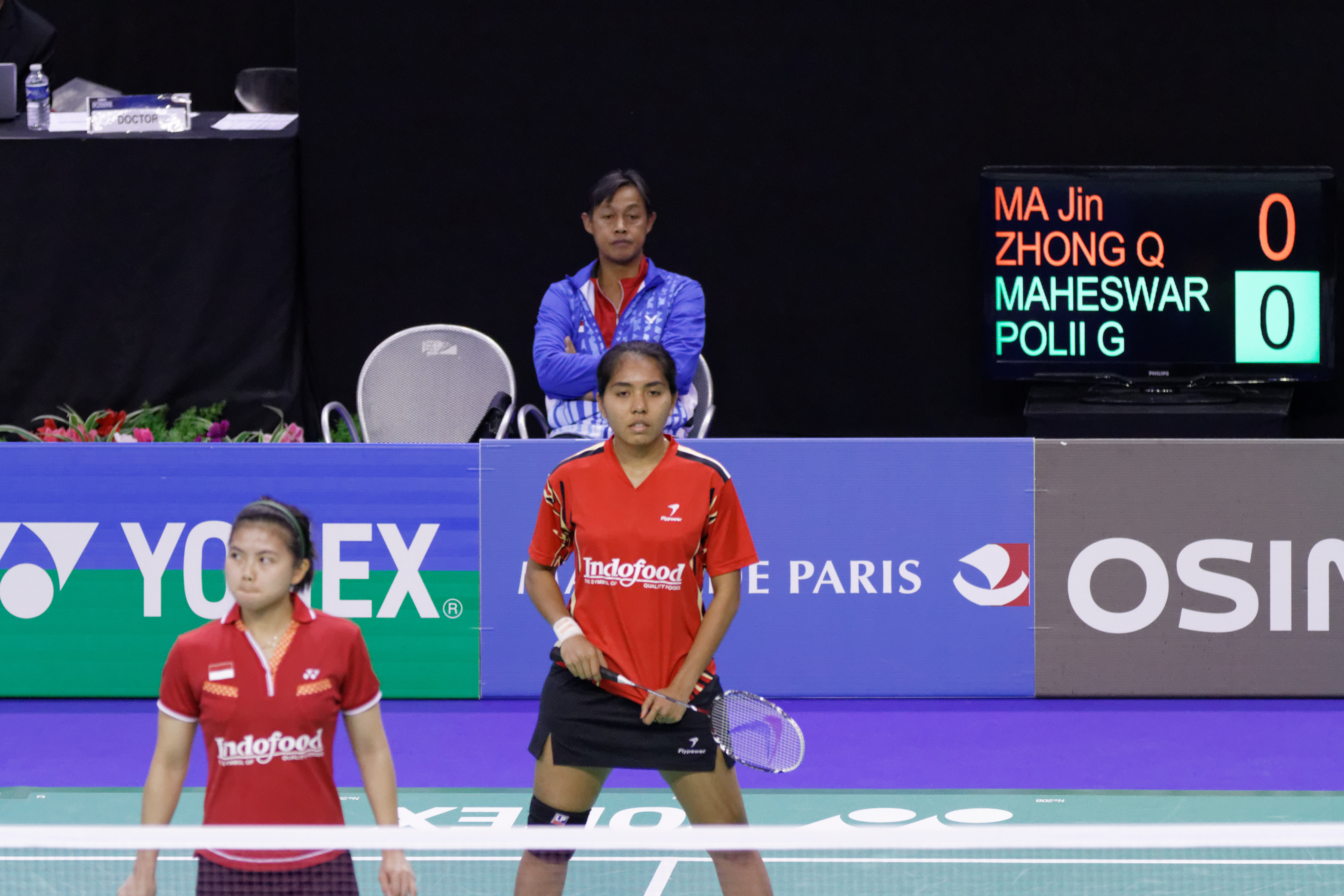 2013 French open. Women's doubles eightfinal. Ma Jin and Zhong Qianxin vs Nitya Krishinda Maheswari and Greysia Polii.